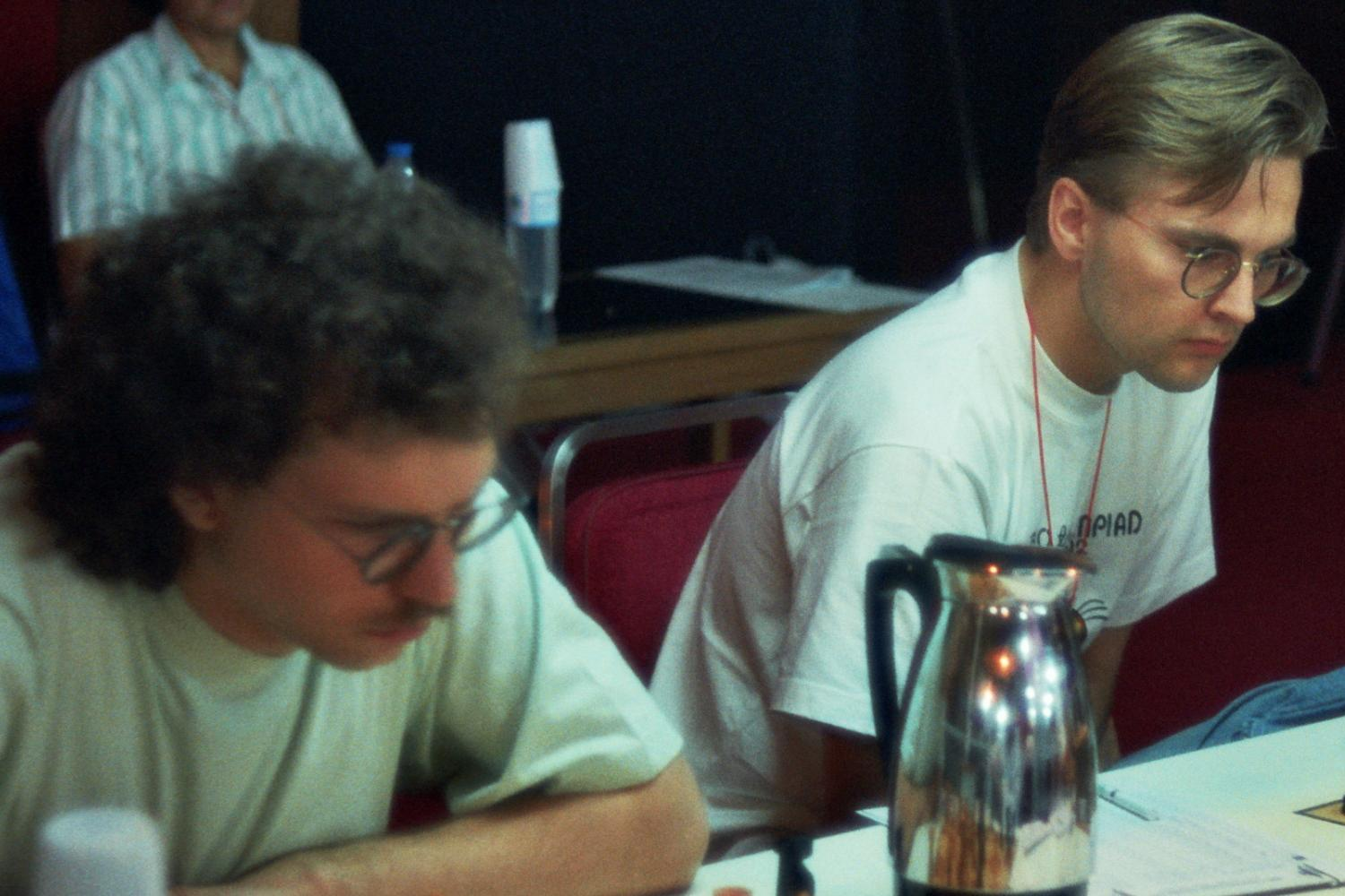 Christopher Lutz and Matthias Wahls, Chess Olympiad 1992, Photographer Gerhard Hund.